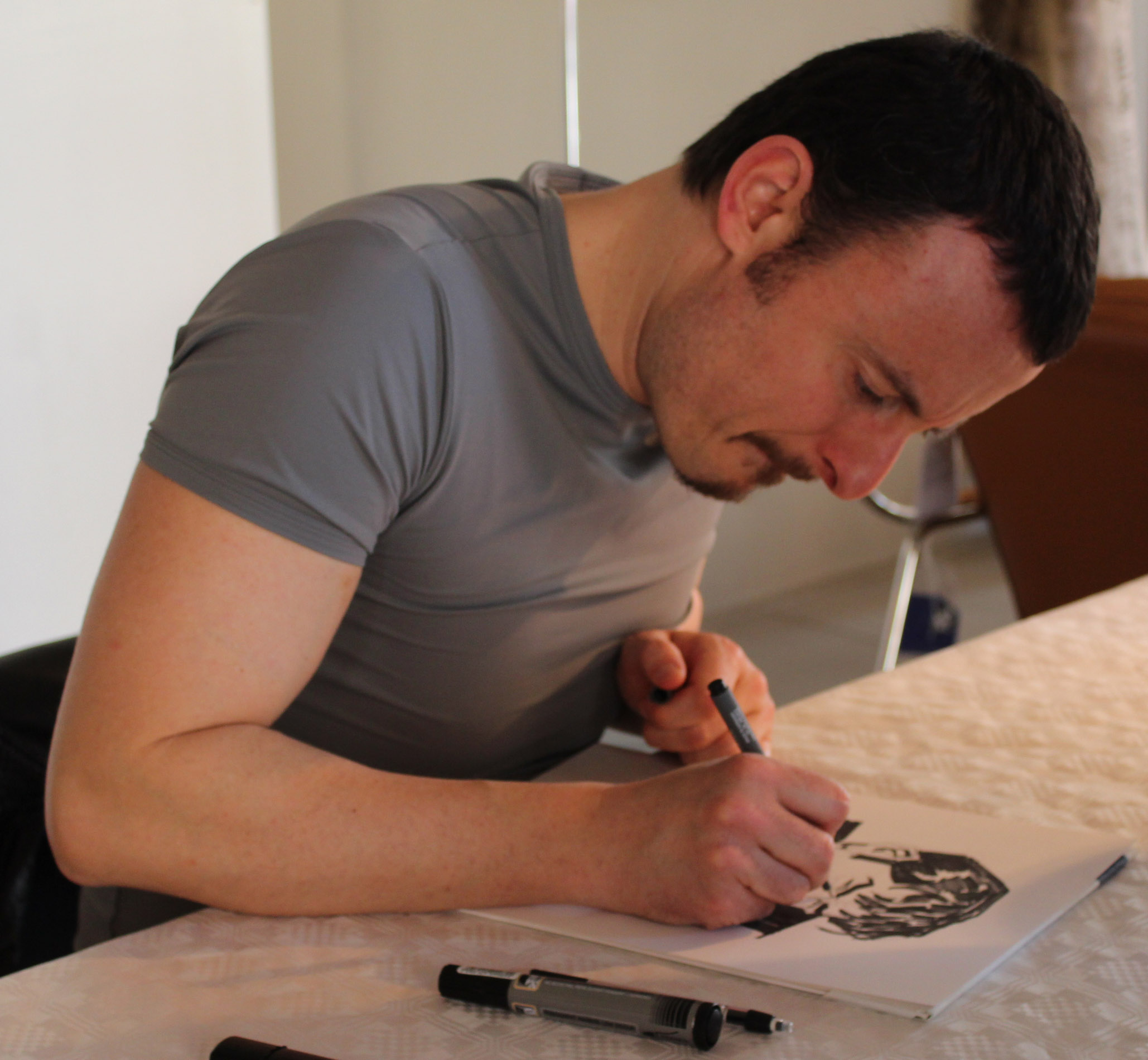 Albissola Comics 2013, May 4th-5th 2013, Albissola Marina, Savona, Italy